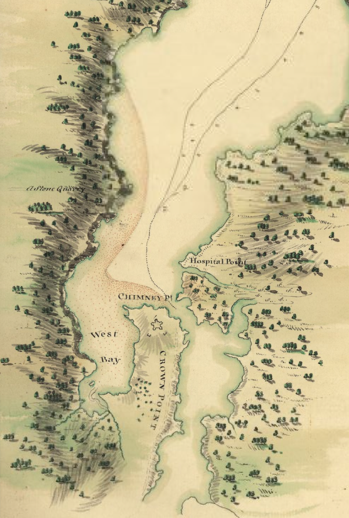 Chimney Point as shown on a 1779 map by William Faden